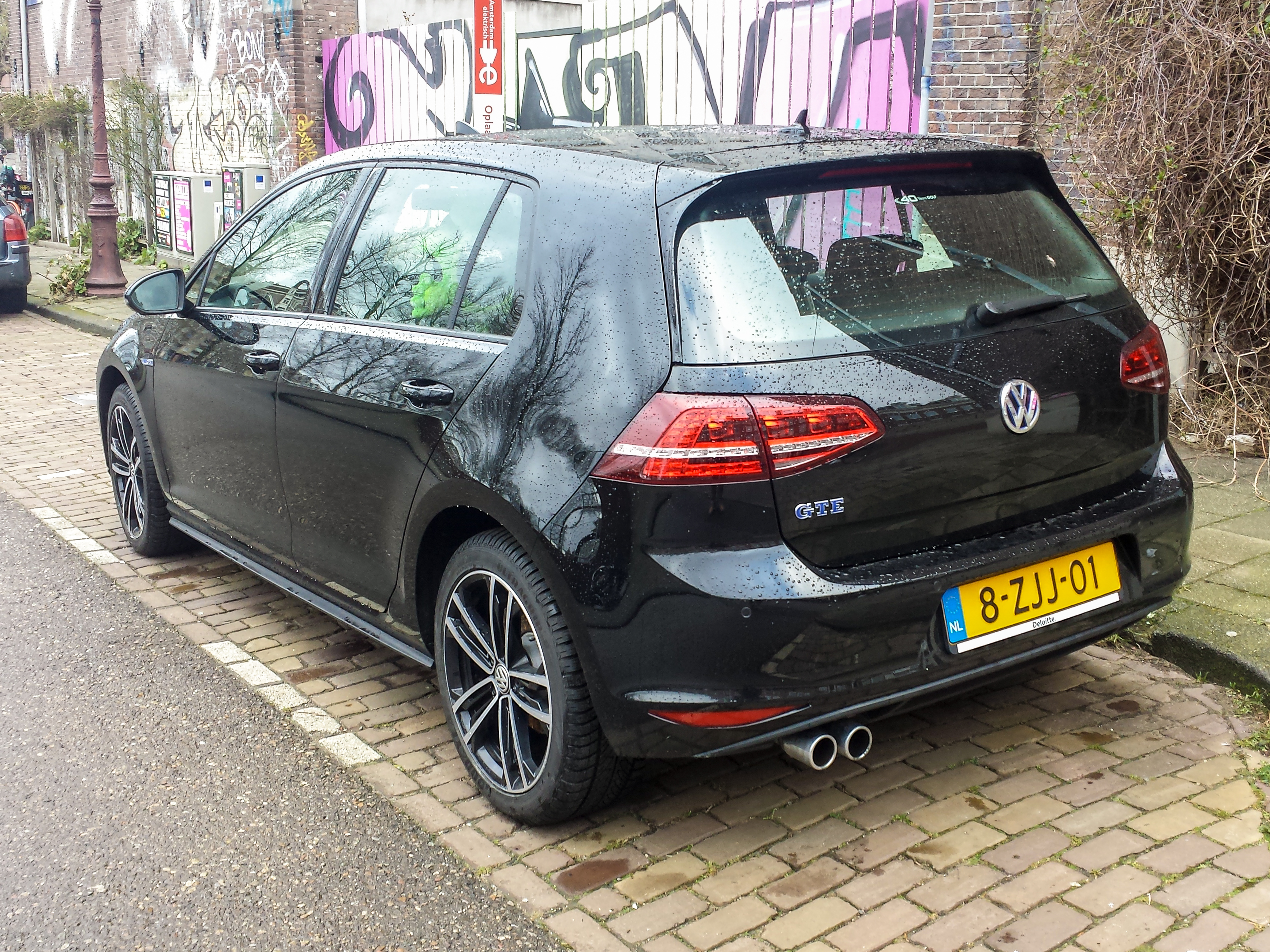 VW Golf GTE